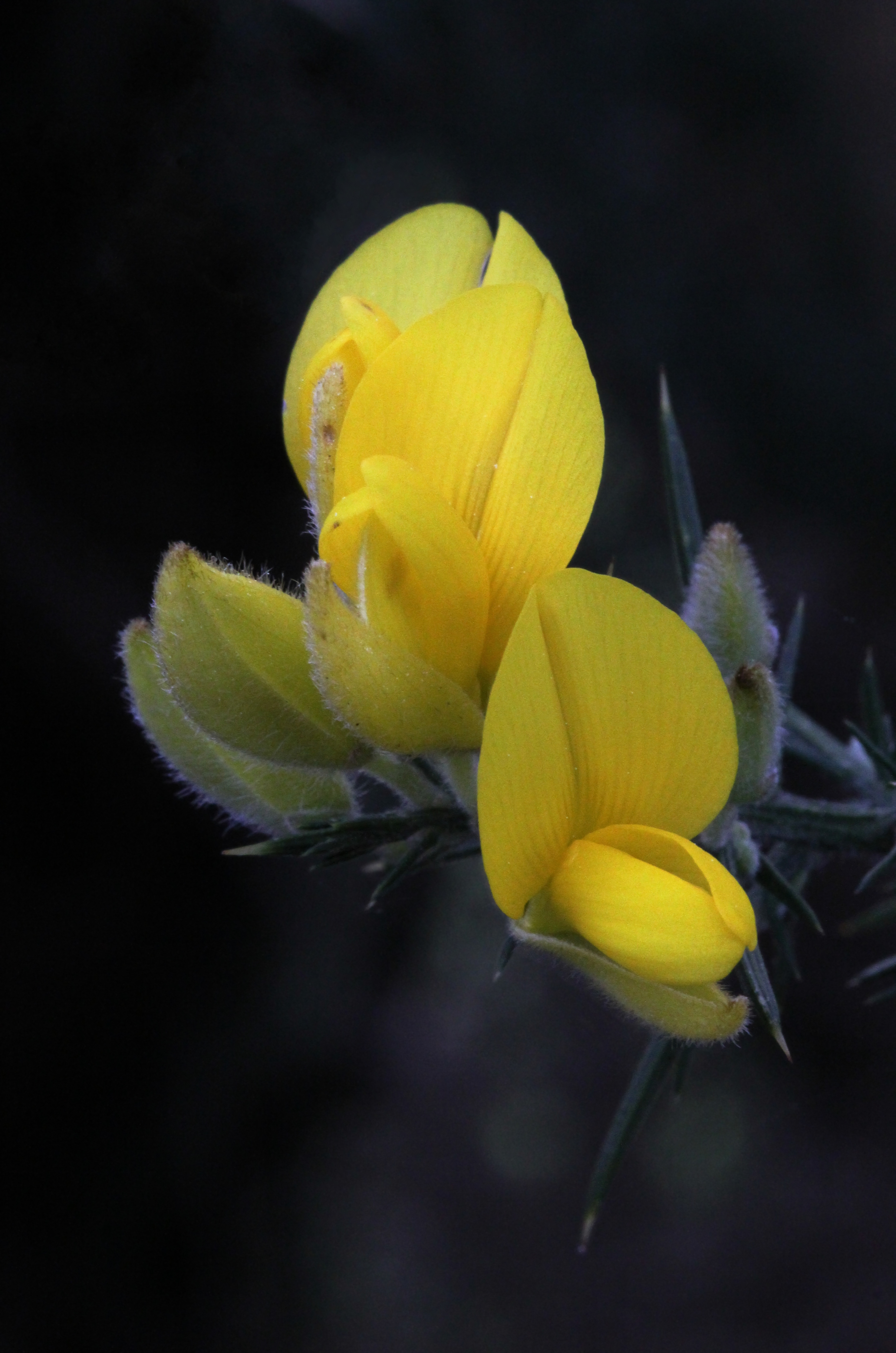 Flowers of Common Gorse (Ulex europaeus), on New Zealand's Otago Peninsula.